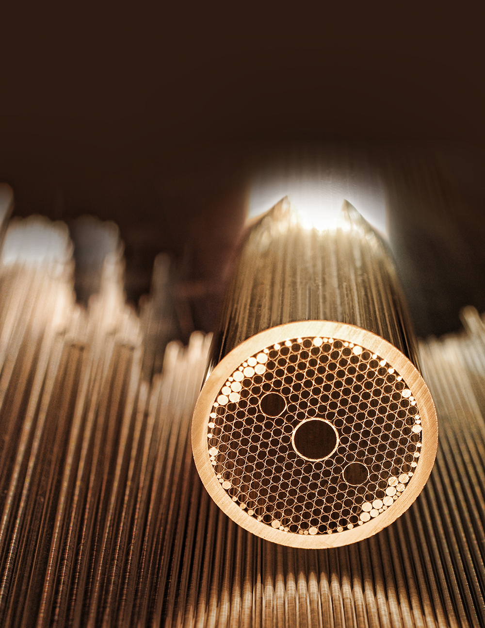 The intensity of light that propagates through glass optical fiber is fundamentally limited by the glass itself. A novel fiber design using a hollow, air-filled core removes this limitation and dramatically improves performance by forcing light to travel through channels of air, instead of the glass around it. DARPA’s unique spider-web-like, hollow-core fiber, design is the first to demonstrate single-spatial-mode, low-loss and polarization control—key properties needed for advanced military applications such as high-precision fiber optic gyroscopes for inertial navigation. Although hollow-core fiber has been available from overseas suppliers for years, DARPA’s ongoing Compact Ultra-Stable Gyro for Absolute Reference (COUGAR) program has brought design and production capacity inside the United States and developed it to a level that exceeds the state of the art. A team of DARPA-funded researchers led by Honeywell International Inc. developed the technology. The hollow-core fiber is the first to include three critical performance-enabling properties: Single-spatial-mode: light can take only a single path, enabling higher bandwidth over longer distances; Low-loss: light maintains intensity over longer distances; Polarization control: the orientation of the light waves is fixed in the fiber, which is necessary for applications such as sensing, interferometry and secure communications. Hollow-core fiber can also be bent and coiled while guiding light at speeds 30 percent faster than conventional fiber.